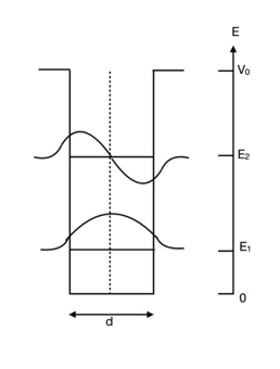 This is a figure I made. The figure shows the energy diagram for a finite quantum well model. I included the first two energy levels. The depth of the well is given by the potential V0. The solution wave functions are sinusoidal like and decay exponentially in the barrier region.